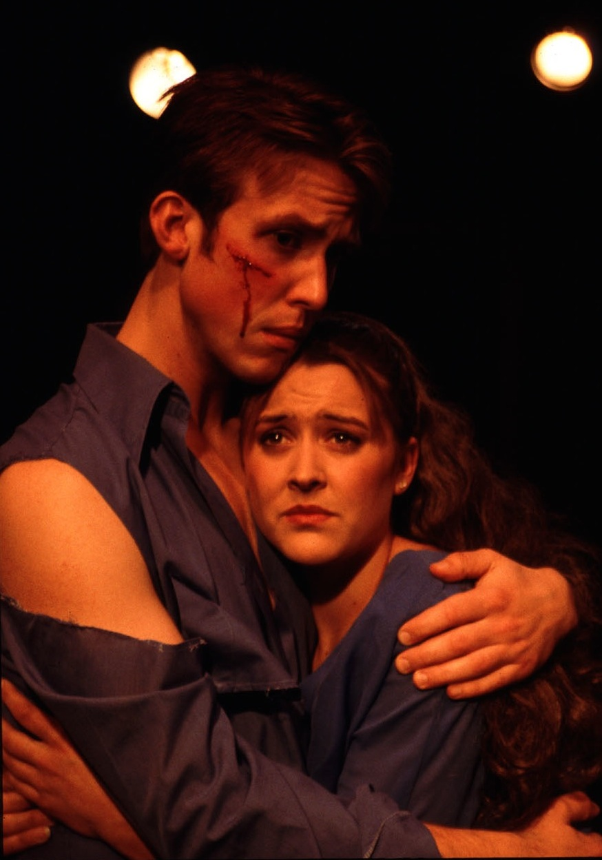 Tony (Justin Gordon) and Maria (Erica Racz) in Pacific Repertory Theatre's 2001 production of West Side Story, at the Golden Bough Playhouse in Carmel, Ca